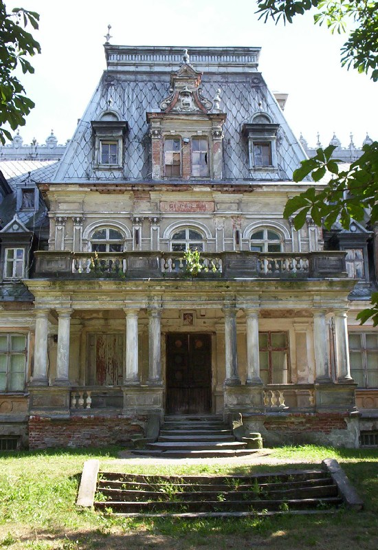 Ruined palace in Guzów (Masovia, Poland). North side, main entrance.